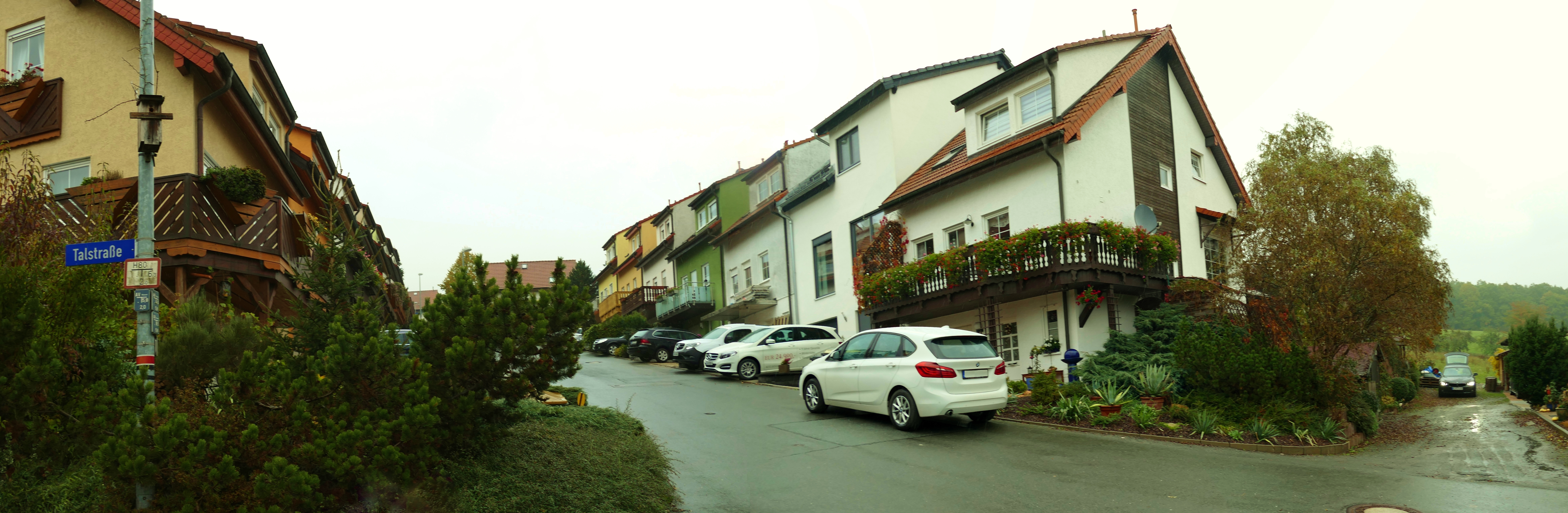 View to the mountain road